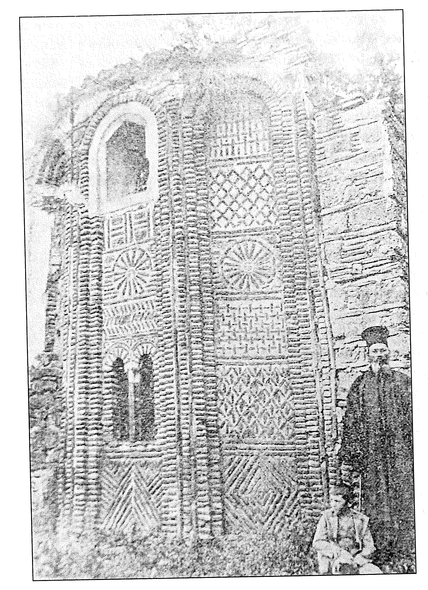 Sain Nicholas of Frantzis Church by Georgios Lampakis